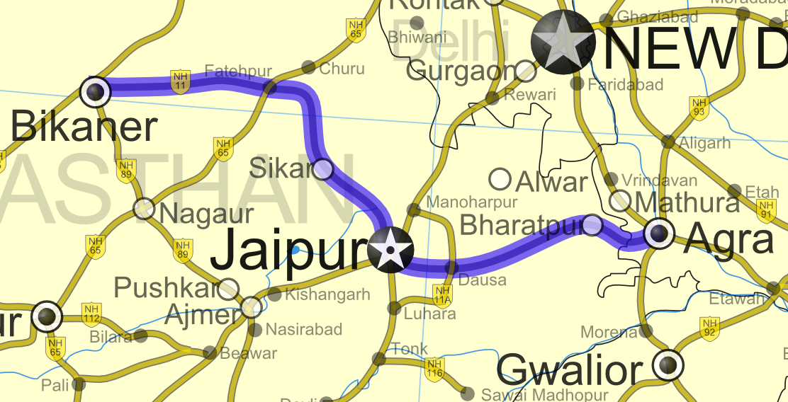 National Highway 11 in India